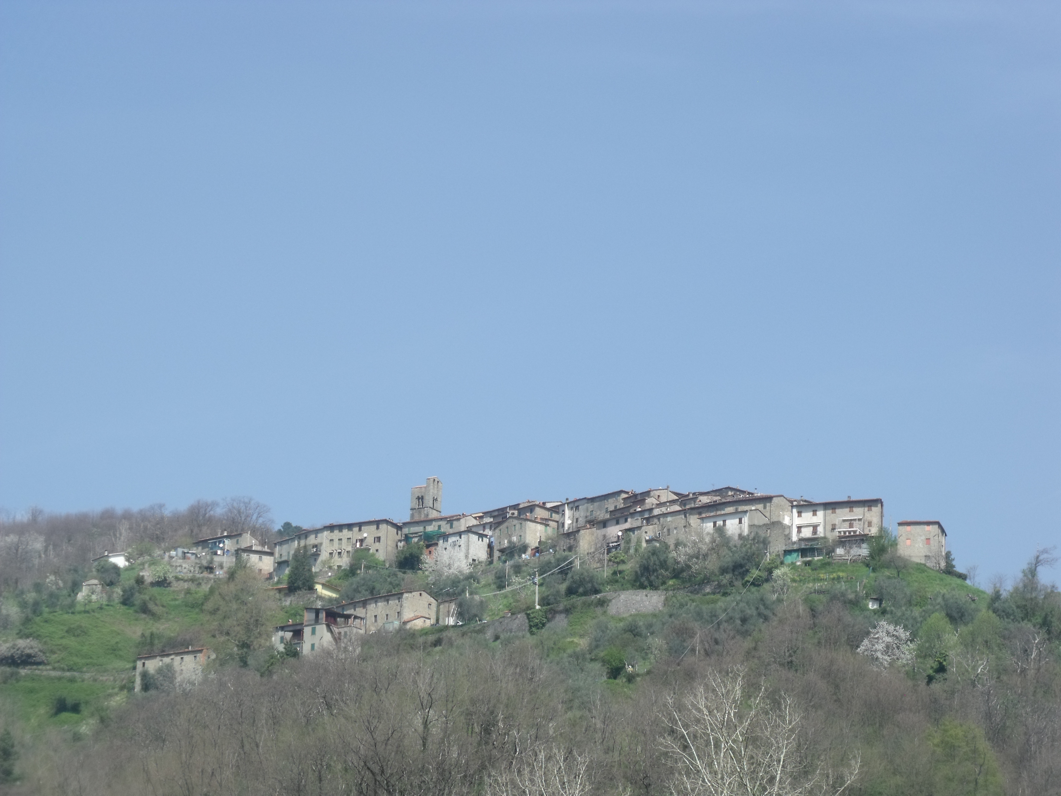 Panorama of Colognora, hamlet of Villa Basilica, Province of Lucca, Tuscany, Italy